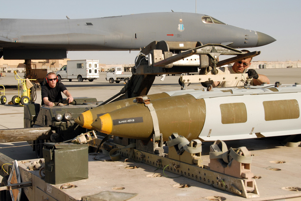 Description U.S. Air Force Airman 1st Class Kenneth Nealis, right, and Senior Airman Christopher Silas, both weapons load crew members assigned to the 379th Expeditionary Aircraft Maintenance Squadron, transfer a 2,000 pound GBU-31 Joint Direct Attack Munition to a lift truck for loading onto a B-1B Lancer aircraft March 29, 2007, in Southwest Asia.